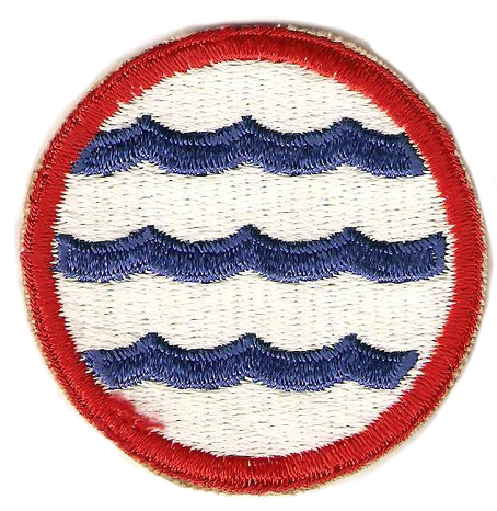 Emblem of the World War II Greenland Base Command